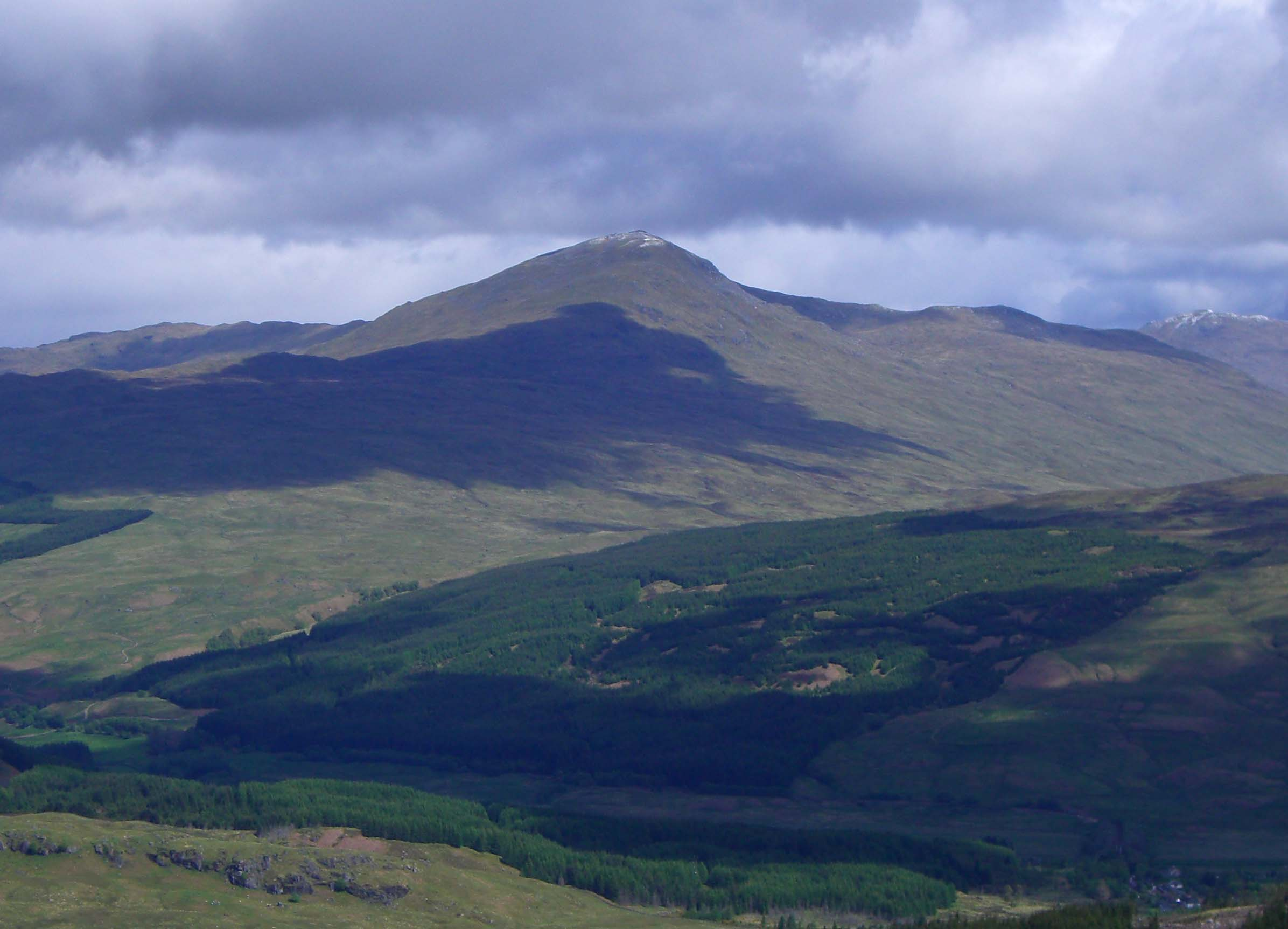 Personal picture taken by Mick Knapton